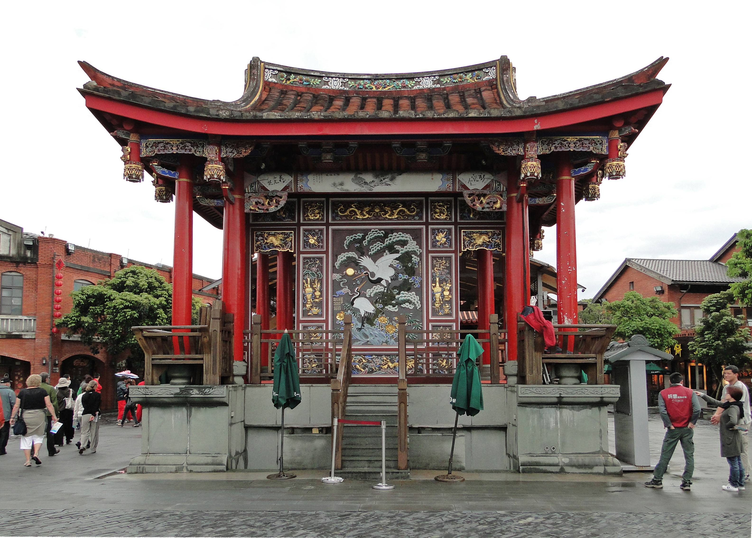 Theatre stage of the National Center for Traditional Arts, Wujie Township, Yilan County, Taiwan